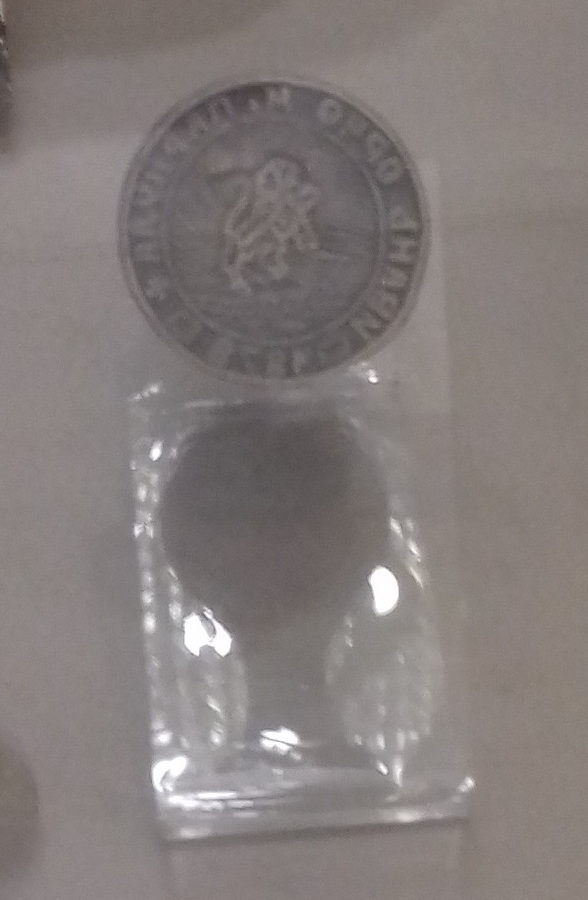 Seal of Orcho Voyvoda National History Museum, Bulgaria